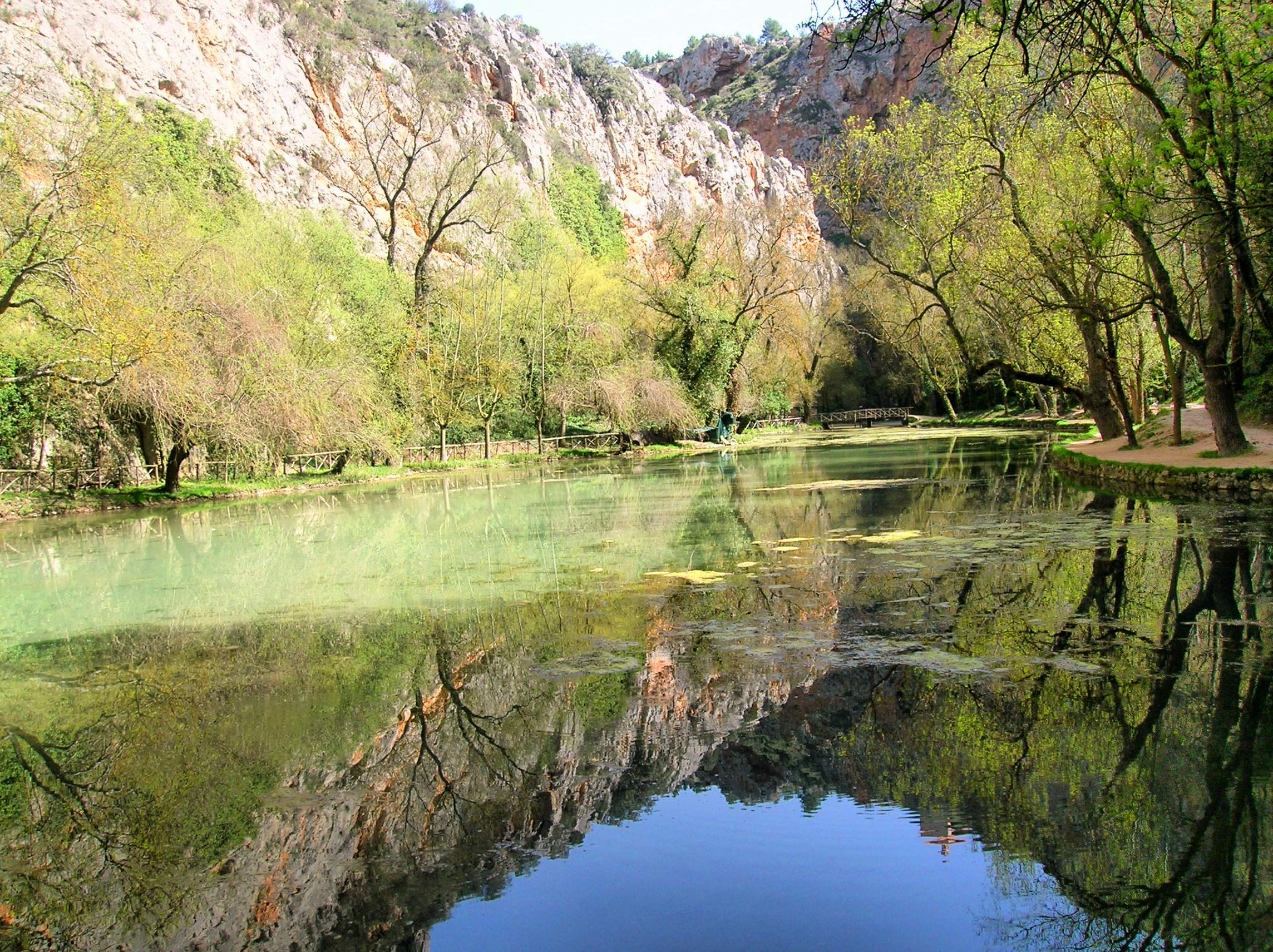 Parque Natural del Monasterio de Piedra (provincia de Zaragoza)